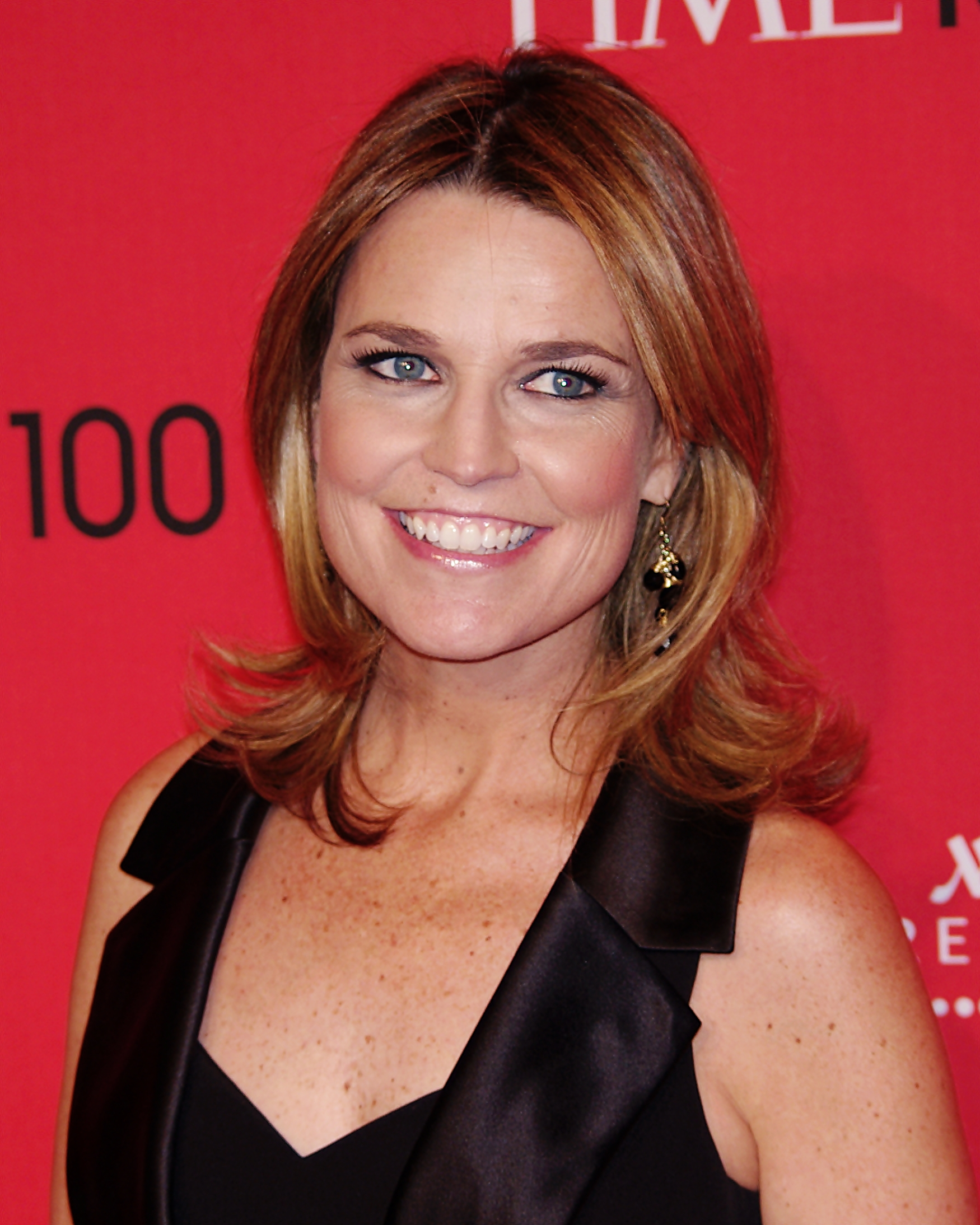 Savannah Guthrie at the 2012 Time 100 gala.